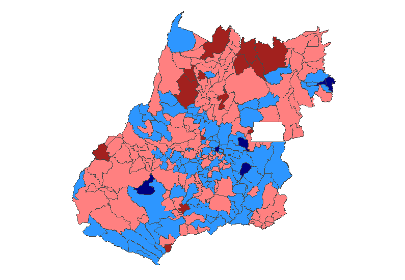 Results of the 2010 Brazilian presidential election (2nd round) in Goiás. ██ Municipalites won by Dilma with less than 65% of the votes ██ Municipalities won by Dilma with over 65% of the votes ██ Municipalites won by Serra with less than 65% of the votes ██ Municipalites won by Serra with over 65% of the votes